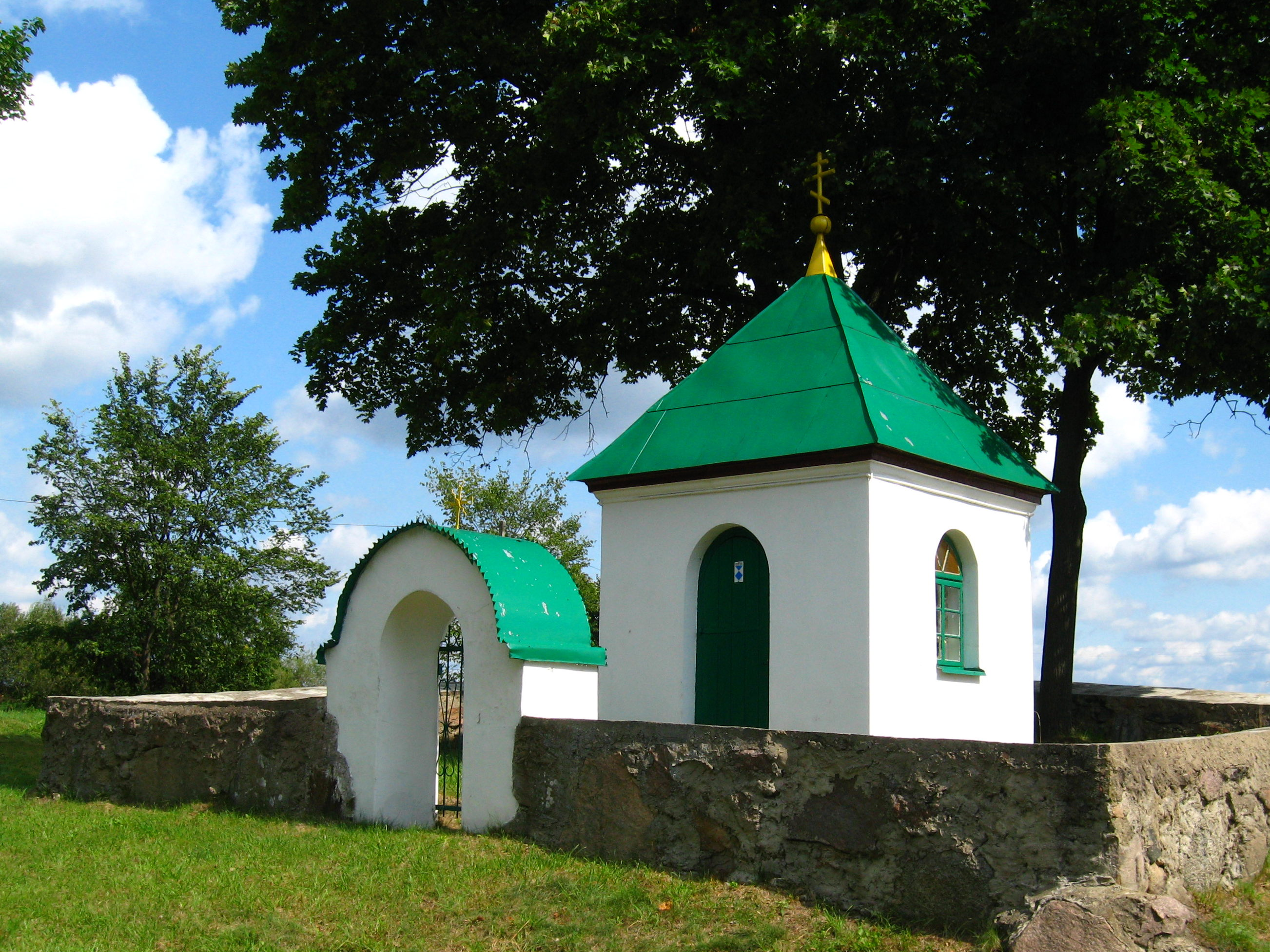 Greek–catholic, now eastern–orthodox, shrine of Saint Barbara, from end of the 18th century